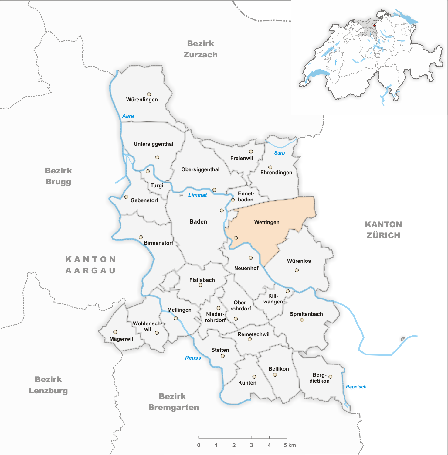 Municipality Wettingen